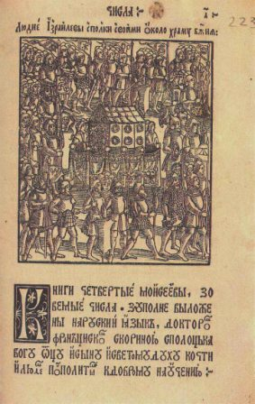 Image from "Book of Numbers" of Francysk Skarynaб 1519 Беларуская (тарашкевіца): Тытульная старонка з гравюрай «Людзі Ізраіля з палкамі сваімі» ці «Ізраілевы палкі ля храма» з «Кнігі лічбаў». Выданьне Францішка Скарыны. 1519.